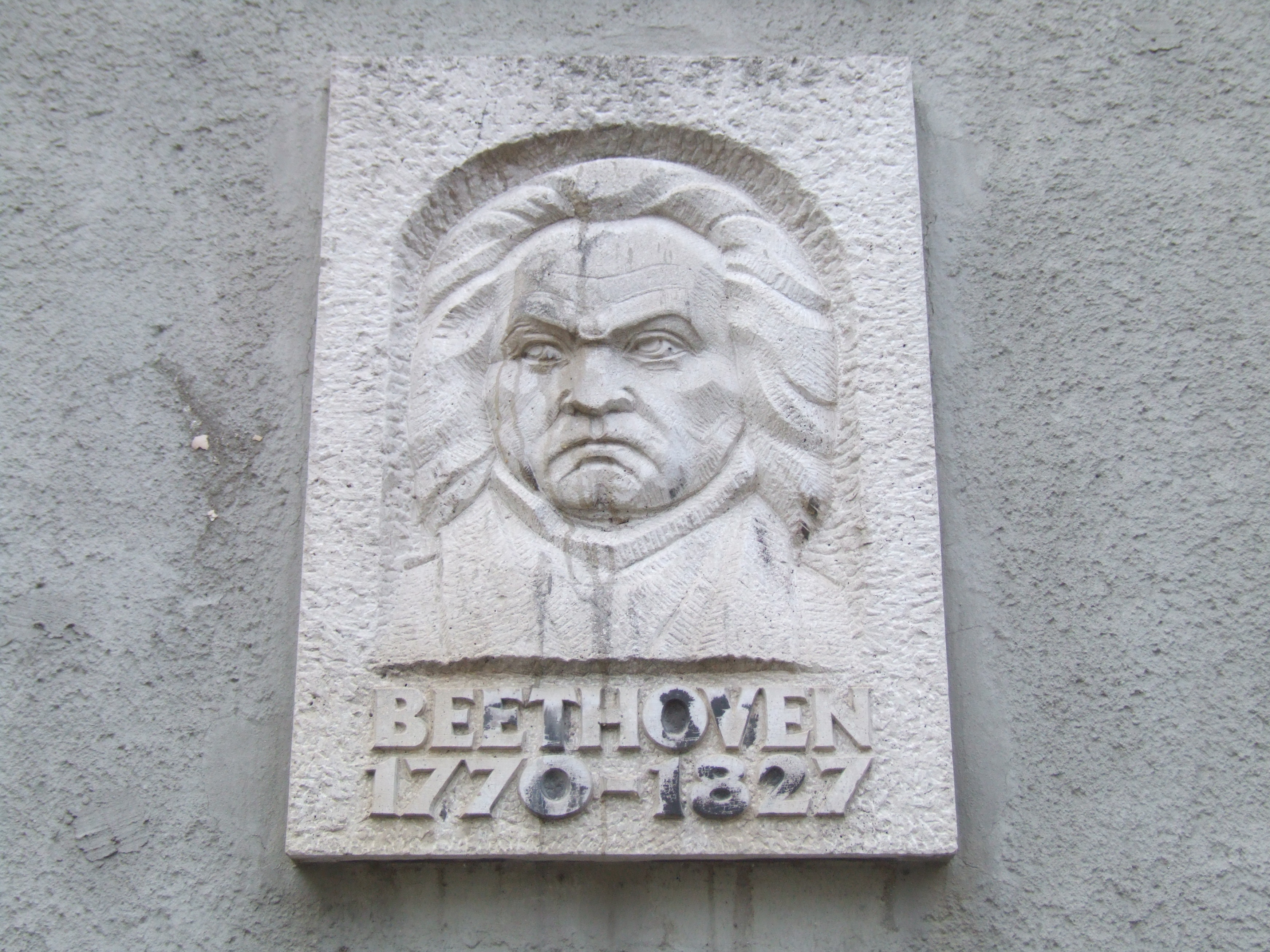 Ludwig van Beethoven relief in Budapest District XII, Beethoven Street No 2. Creator: László Csontos.